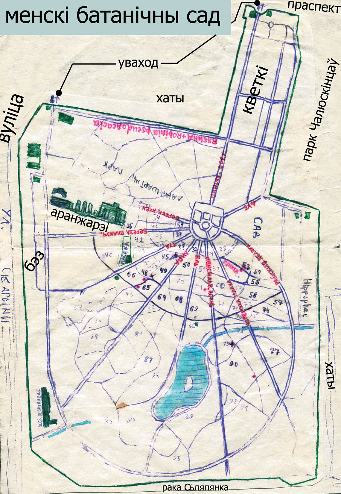 Miensk botanical garden scheme Беларуская (тарашкевіца): Мапа менскага батанічнага саду